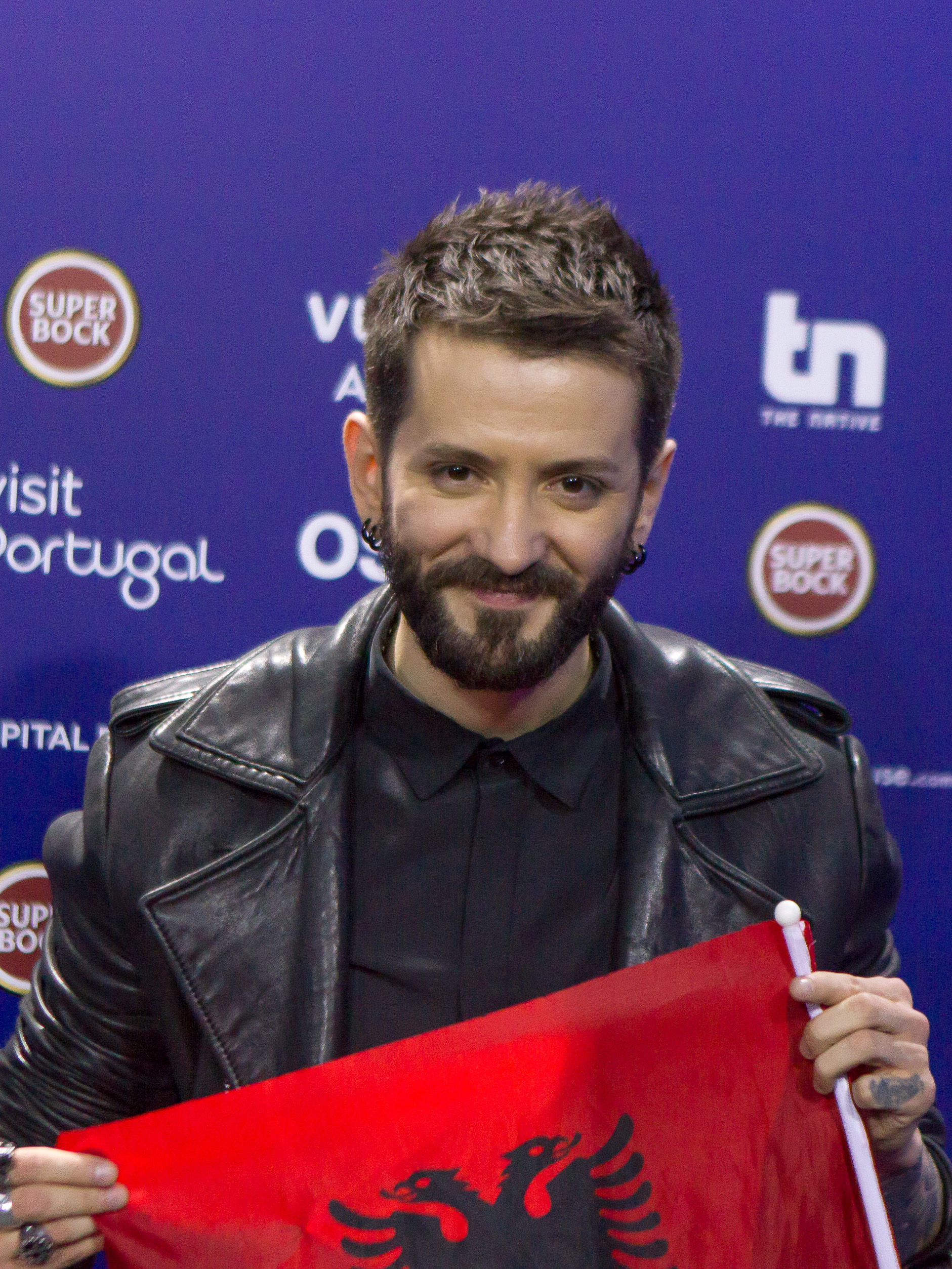 Press conference after the first Semi-Final of the 2018 Eurovision Song Contest